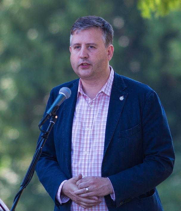 Burnaby—Douglas MP Kennedy Stewart addresses the crowd, at the STOP KINDER MORGAN protest rally, on Burnaby Mountain Park.